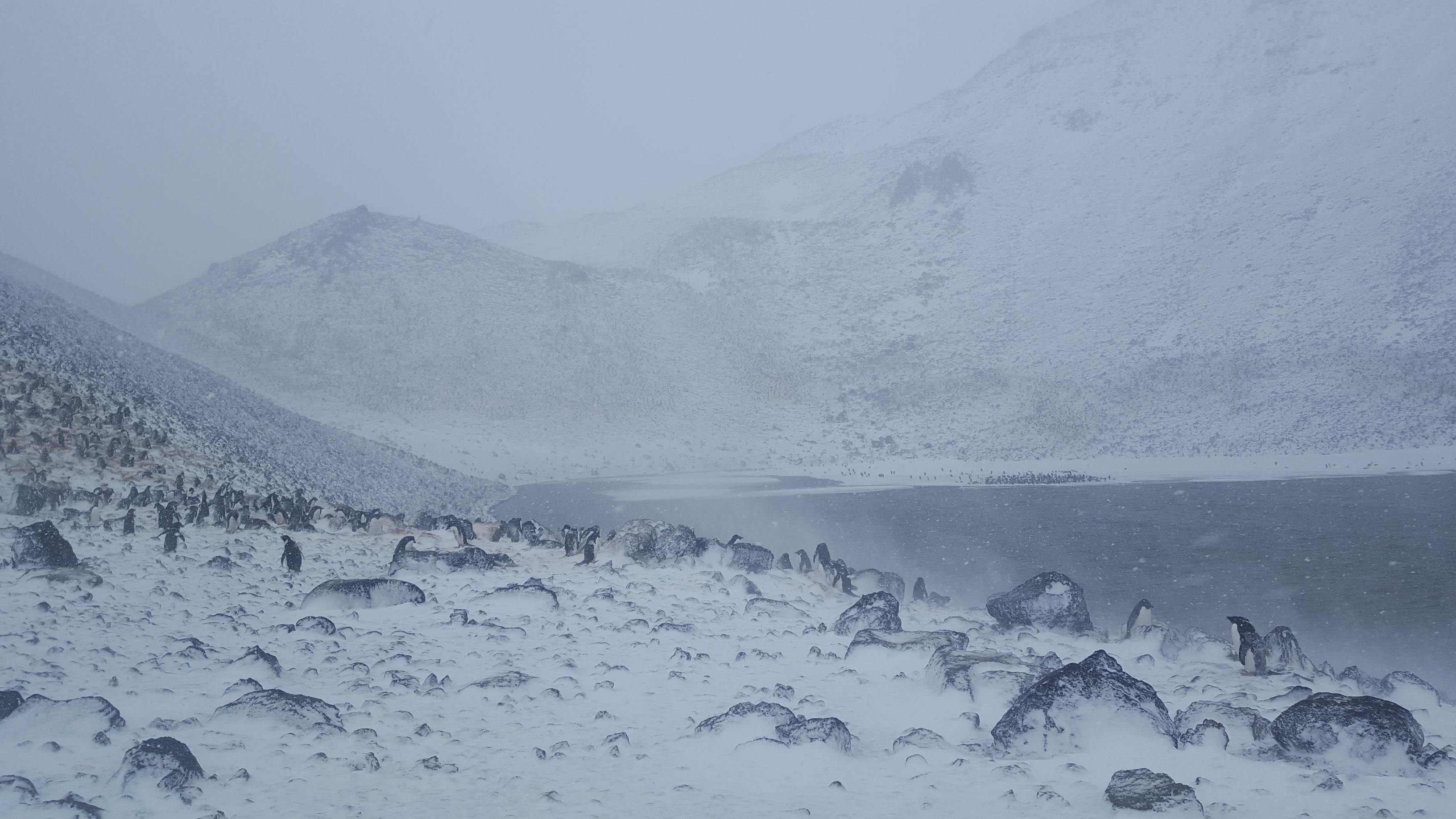 Paulet Island has two crater lakes.